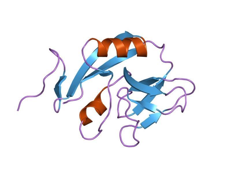 Cartoon representation of the molecular structure of protein registered with 1hq8 code.